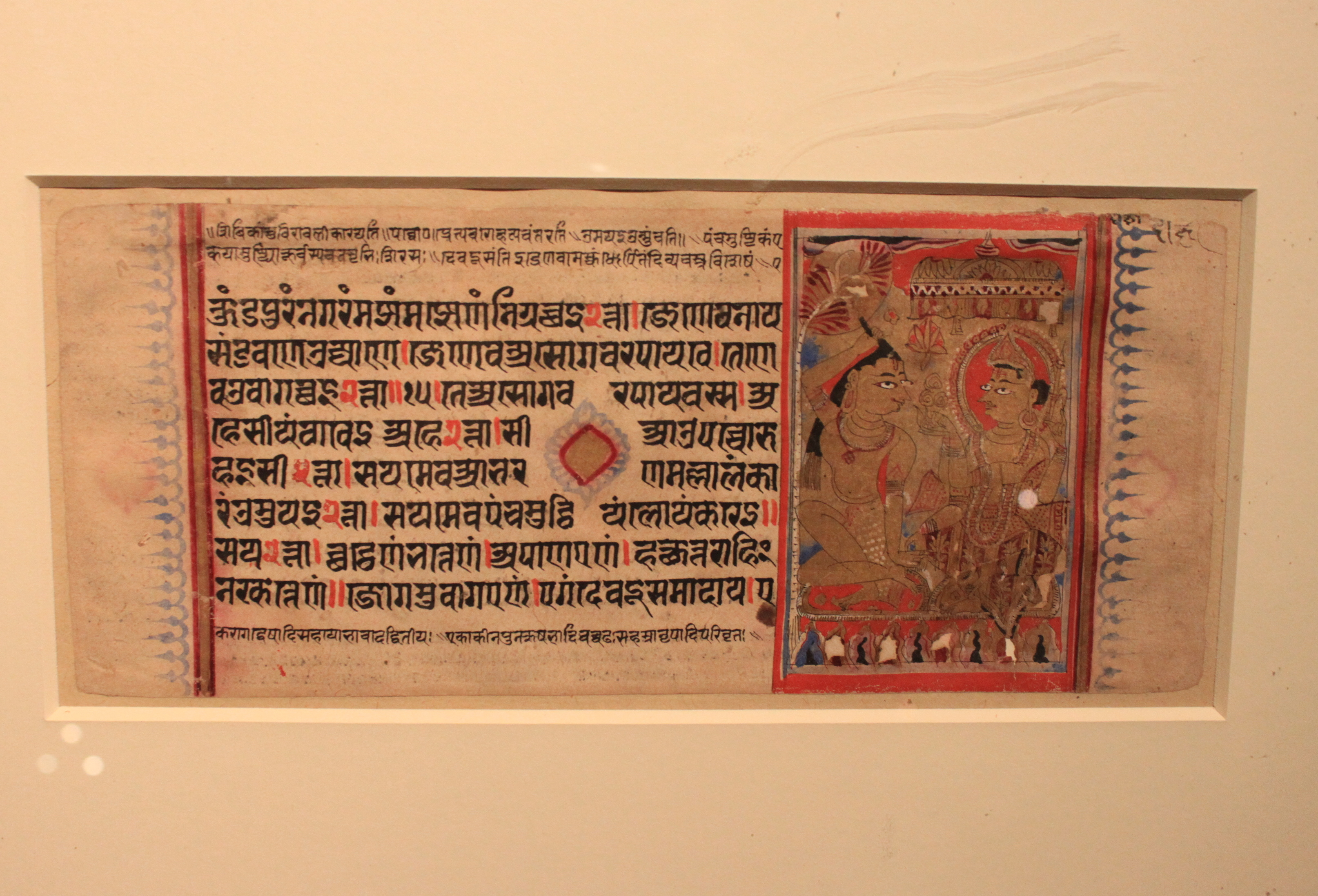 Mahavira Plucks Out His Hair from Kalpasutra (Book of Rituals) Opaque watercolour, ink and gold on paper Western India About 1450-1500 The Kalpasutra (Book of Rituals) is the most important canonical text in Jain literature for the Svetambaras (white-clad), one of the two sects of Jainism. Jainism is one of the oldest religions to have survived until the present time and its basic teaching is one of non-violence. The Kalpasutra is divided into three sections. The first section deals with the lives of the twenty-four Jinas or Tirthankaras, who were the Jain spiritual teachers or \'ford-makers\'. The second part deals with the life of Mahavira, the twenty-fourth Tirthankara. The third part deals with rules for the ascetics and laws during the four months (chaturmas) of the rainy season, when ascetics temporarily abandon their wandering life and settle down amidst the laity. This is the time when the festival of Paryushan is celebrated and the Kalpasutra is traditionally recited. On his renunciation of the householder's life, Mahavira, the 24th god and last Jain saviour, plucks out his hair, accompanied by Shakra or Indra, King of the gods. Jain monks on their initiation still pluck out a hair today. Collection ID: IS.46:45-1959 This photo was taken as part of Britain Loves Wikipedia in February 2010 by Jenny O'Donnell.